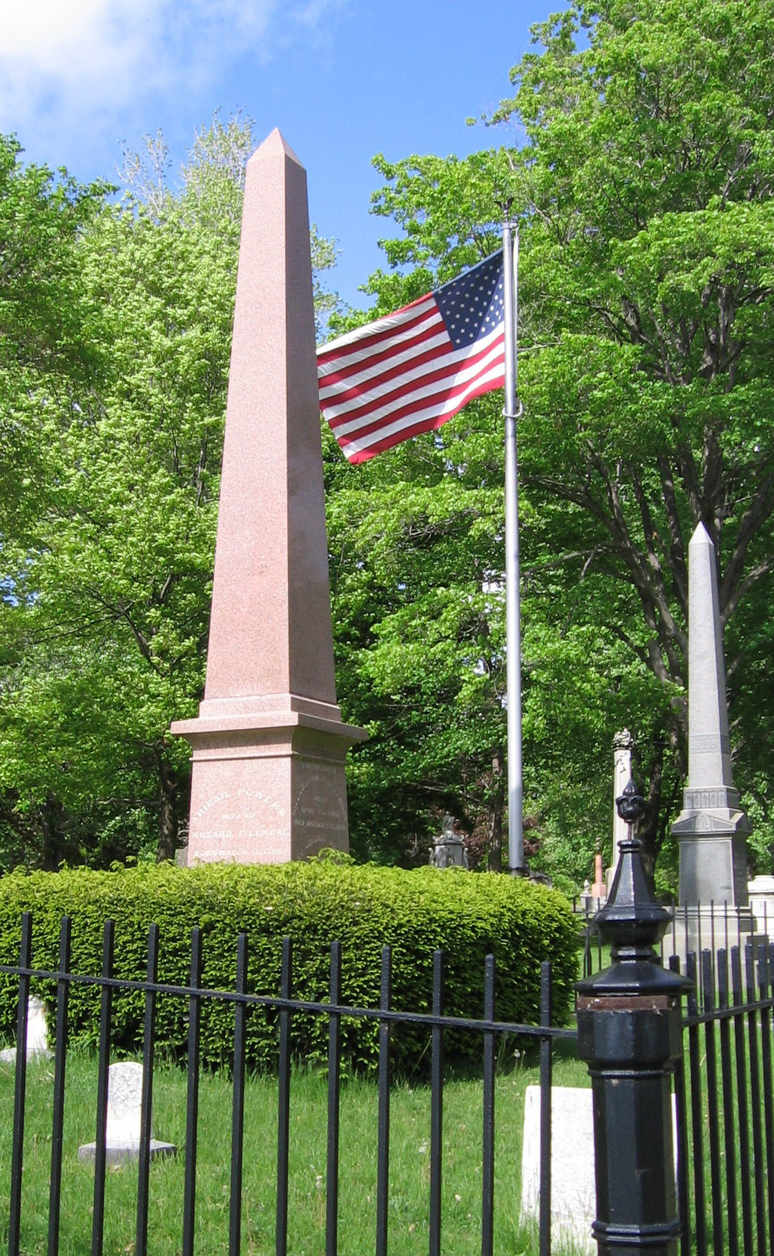 Millard Fillmore gravesite at Forest Lawn Cemetery, Buffalo, NY, May 19, 2006.